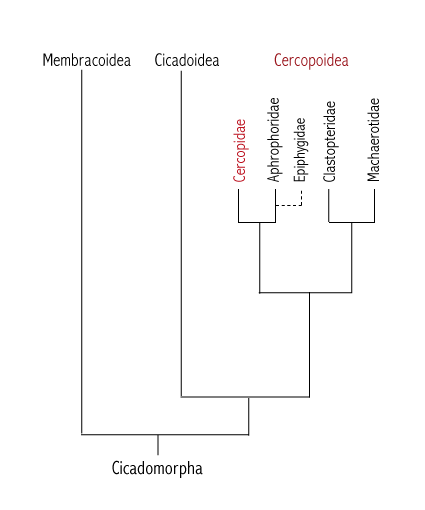 Phylogenetic relationships of Cicadomorpha after Jason R. Cryan, 2005